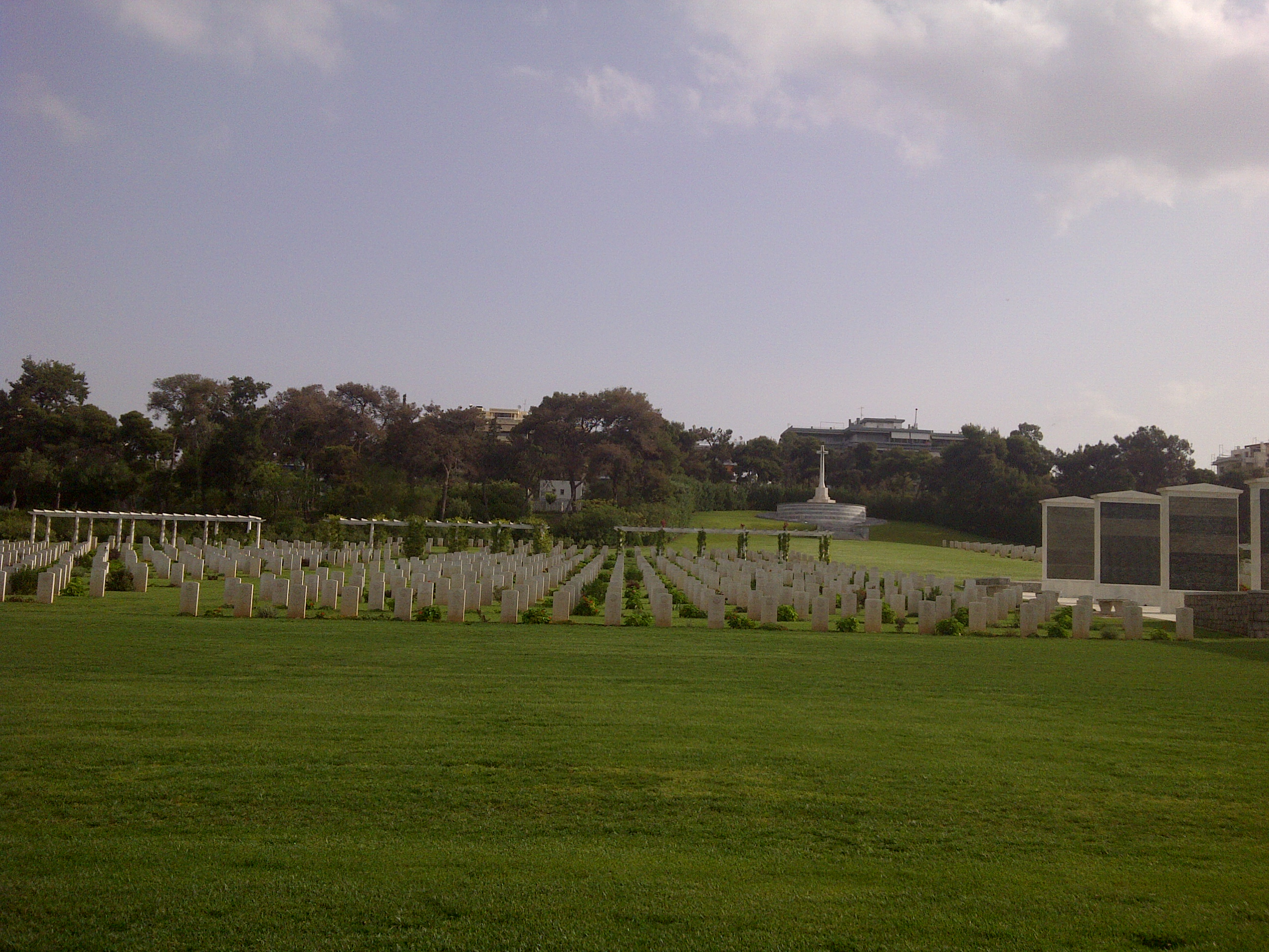 Phaleron War Cemetery, the Athens Memorial. Place of burial for 2.028 soldiers of the Commonwealth from 1941 and after 1944.